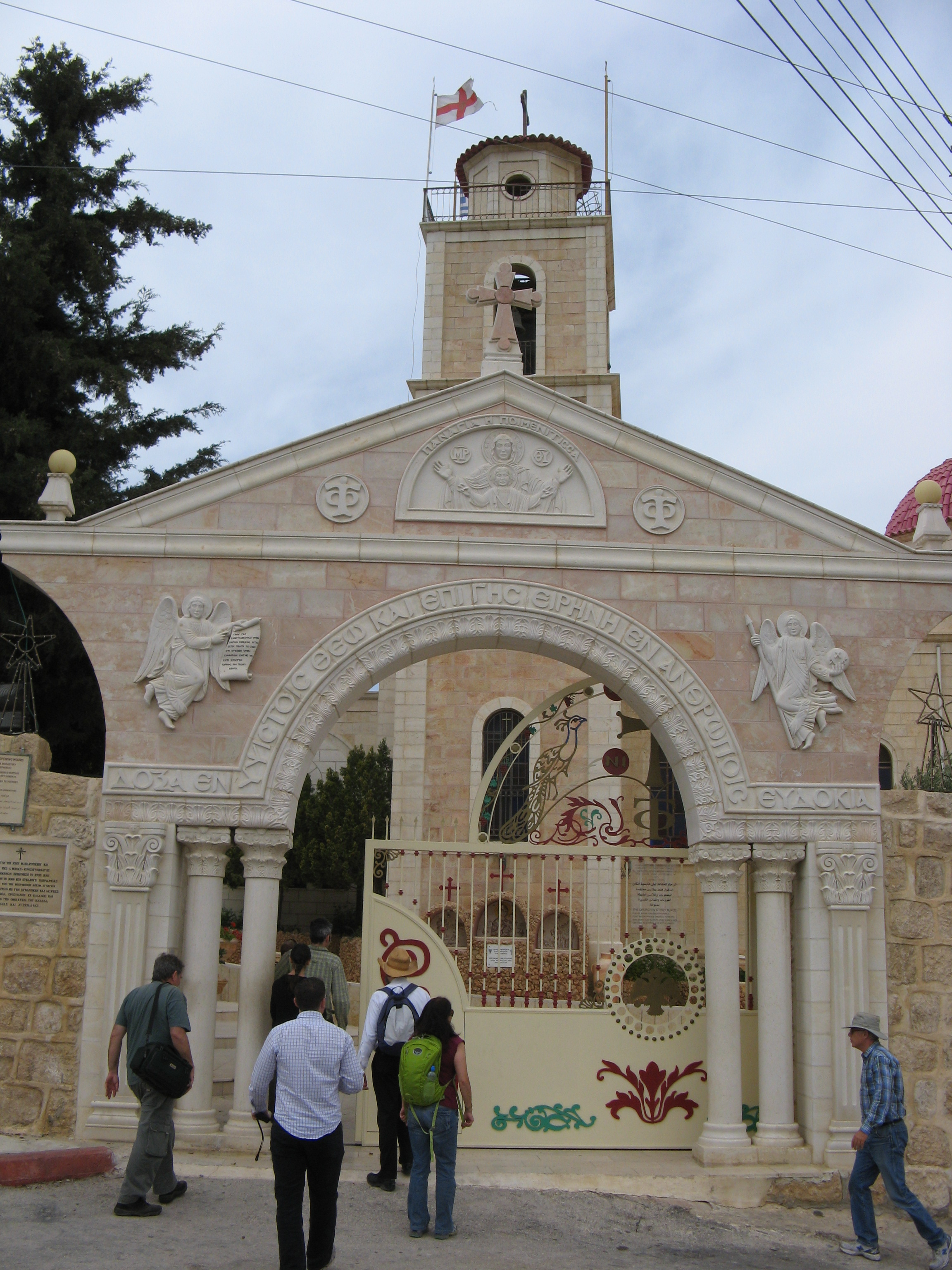 Beit Sahour